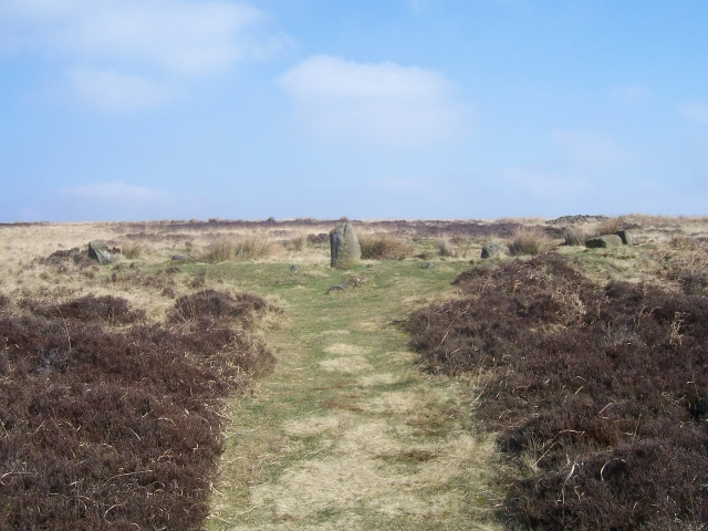 Stone circle and cairn Barbrook One bronze-age stone circle and cairn. The cairn is visible to the right on the horizon.